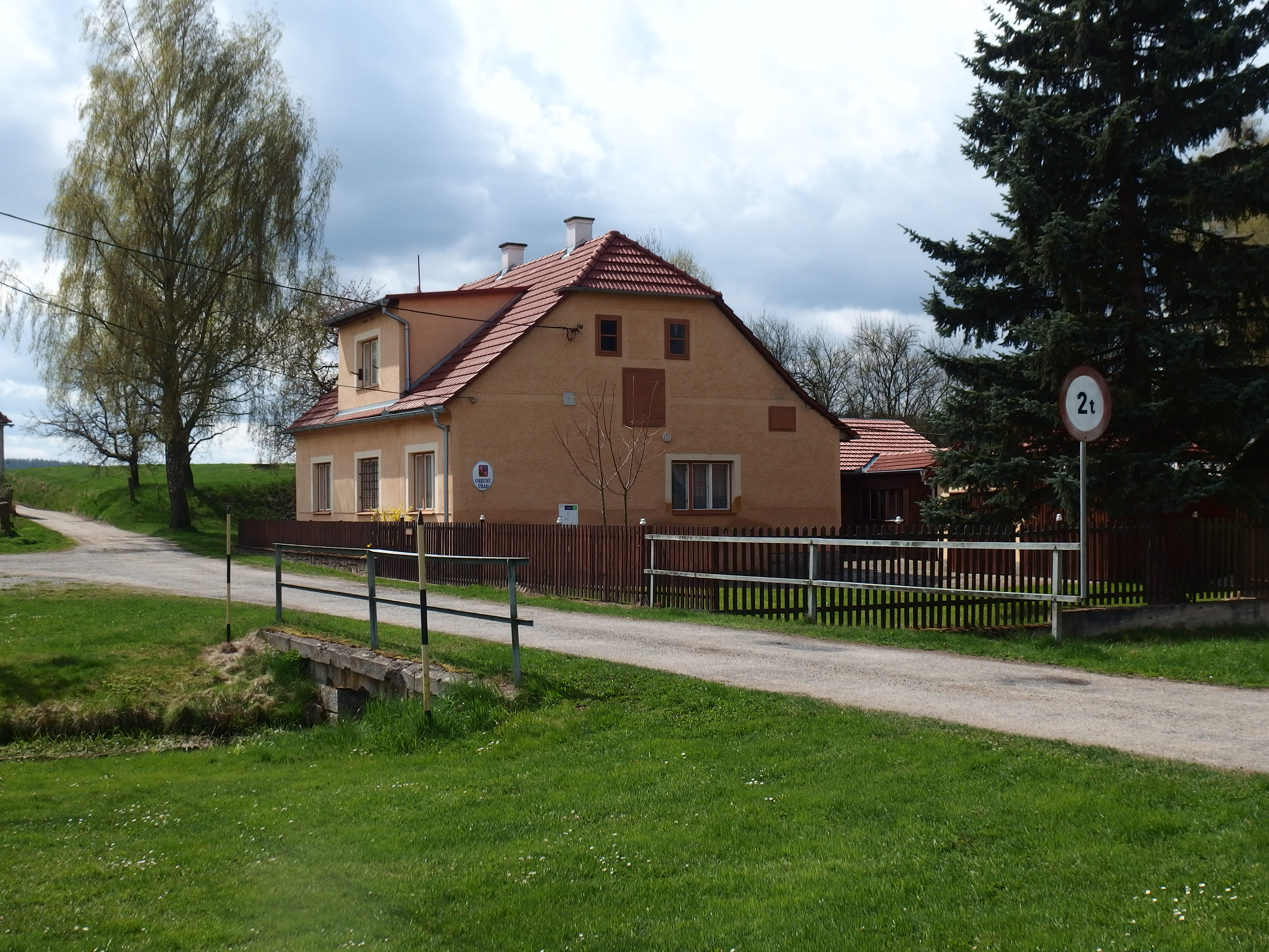 Volevčice, Jihlava District, Czech Republic.